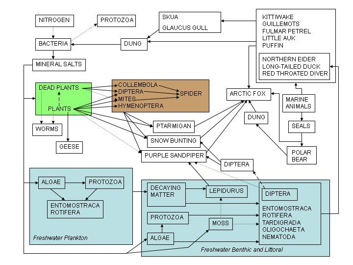 Redrawing of Summerhayes and Elton's 1923 food web of Bear Island